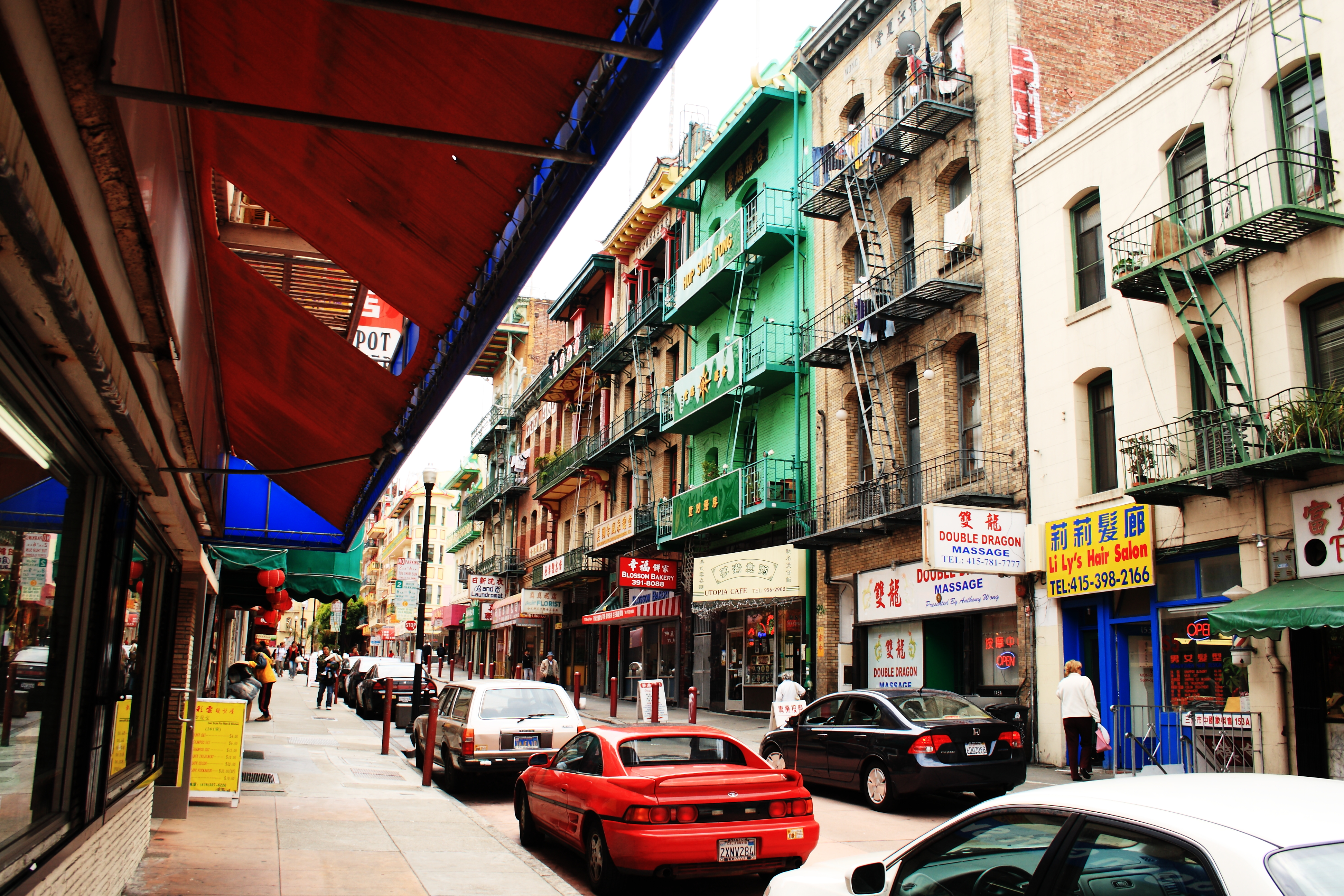 Chinatown in San Francisco feels like a different country.